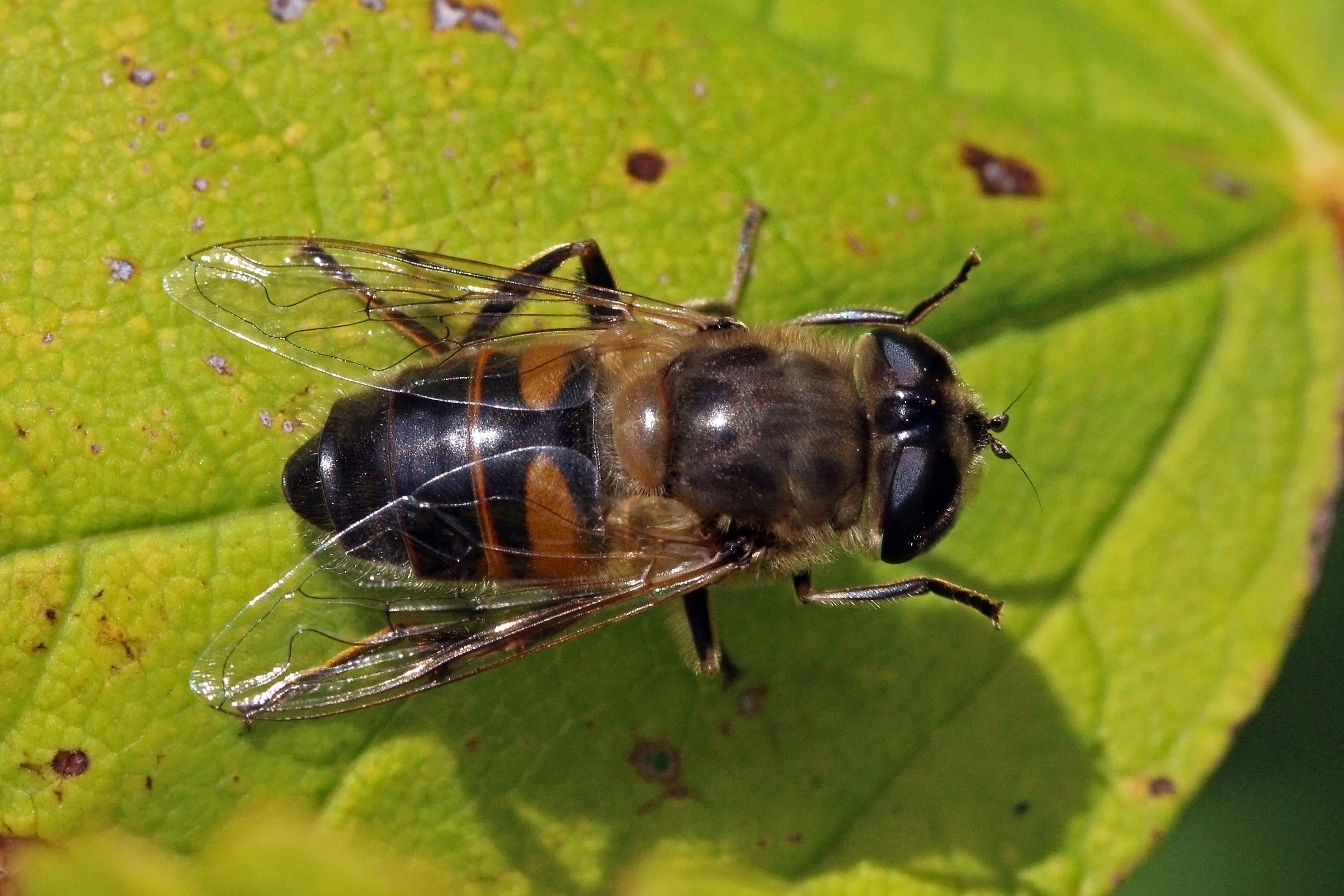 Hoverfly (Eristalis tenax) female, Dry Sandford Pit, Oxfordshire